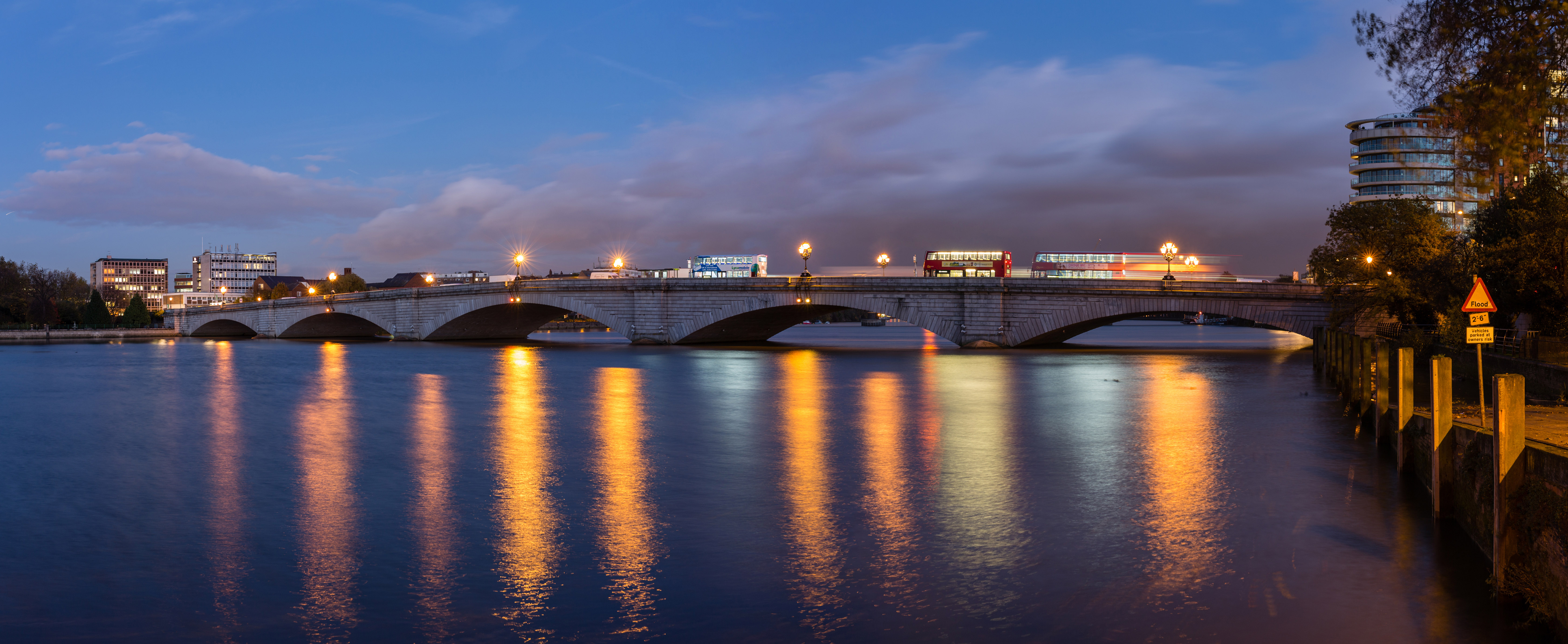 A panorama of Putney Bridge at Dusk as viewed from the south-west at the boat sheds along the Thames.